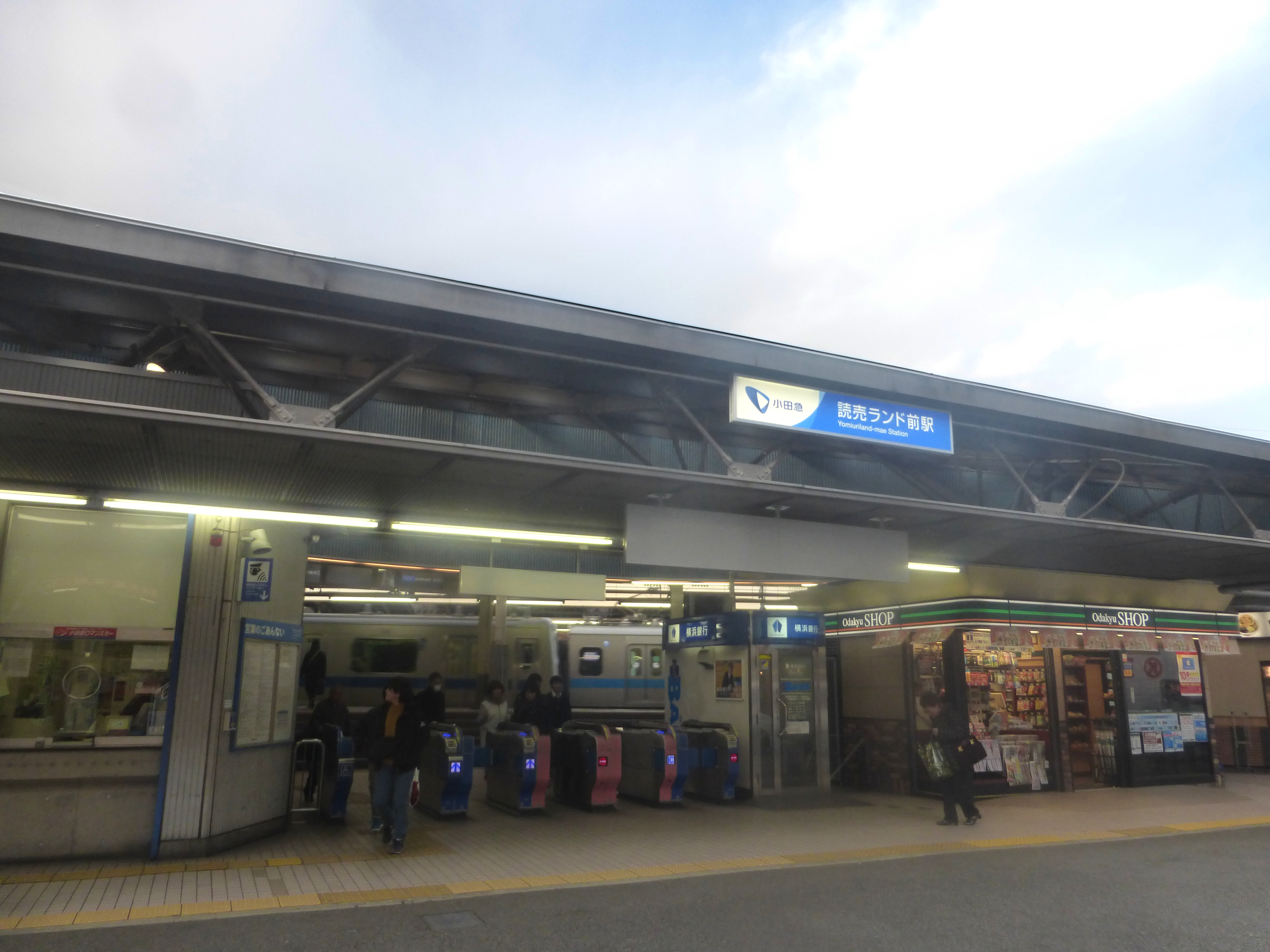 Yomiuriland-mae Station (読売ランド前駅)